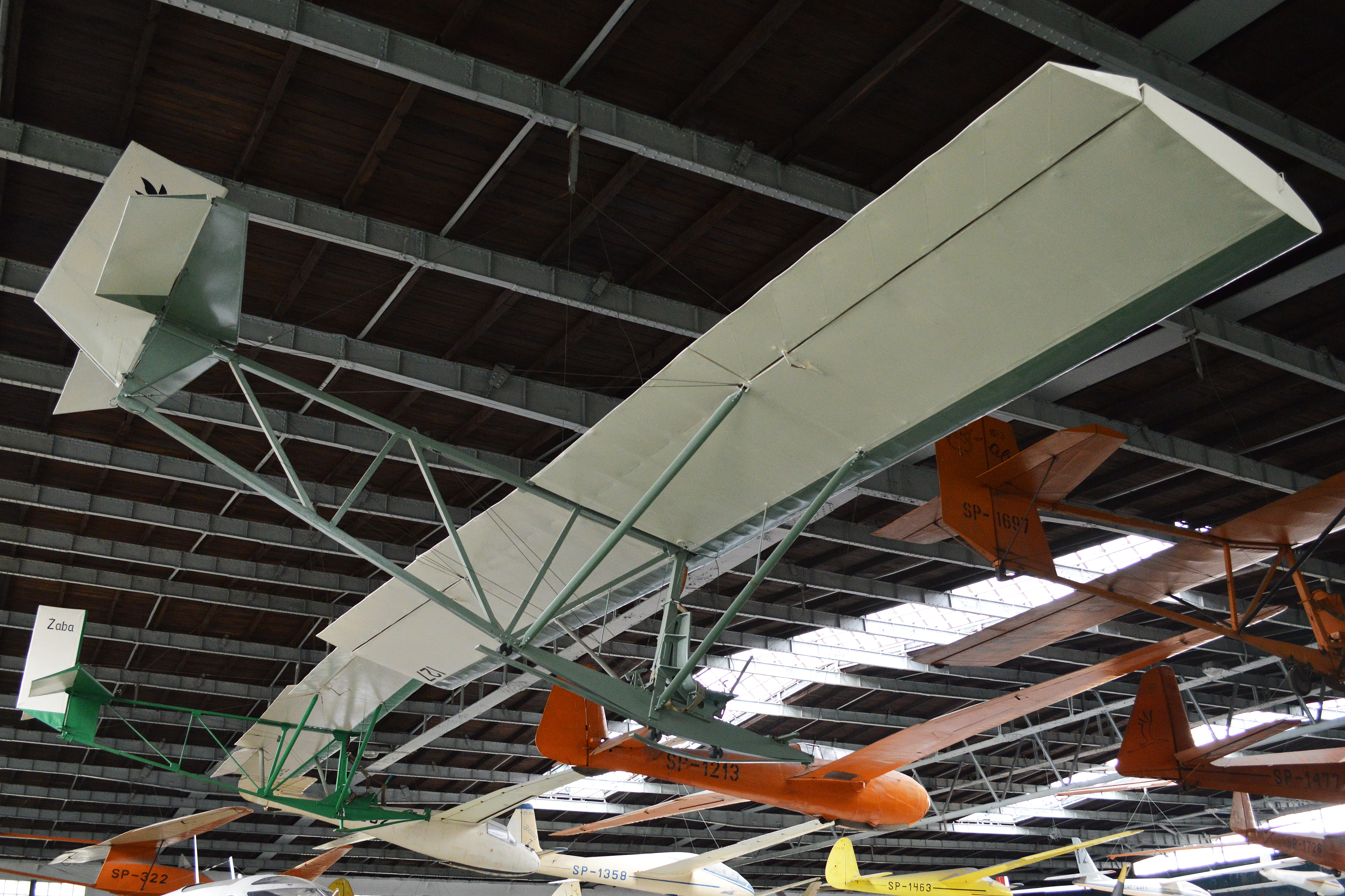 c/n 127. On display suspended in the main display hangar at the Muzeum Lotnictwa Polskiego Krakow, Poland. 23-08-2013.